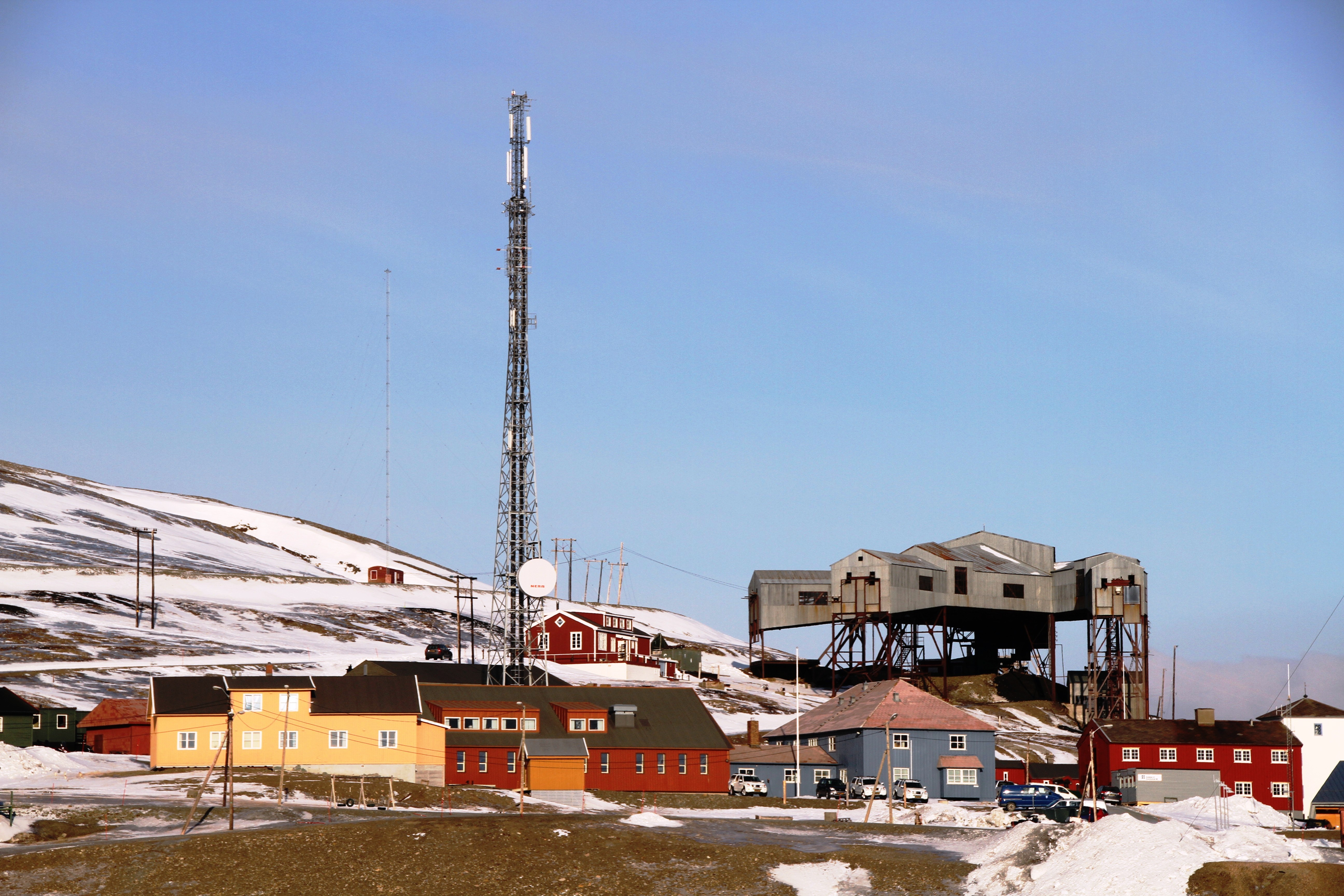 Skjæringa in Longyearbyen, Svalbard. From left Telenor Svalbard, Taubanesentralen, Governor's Mansion